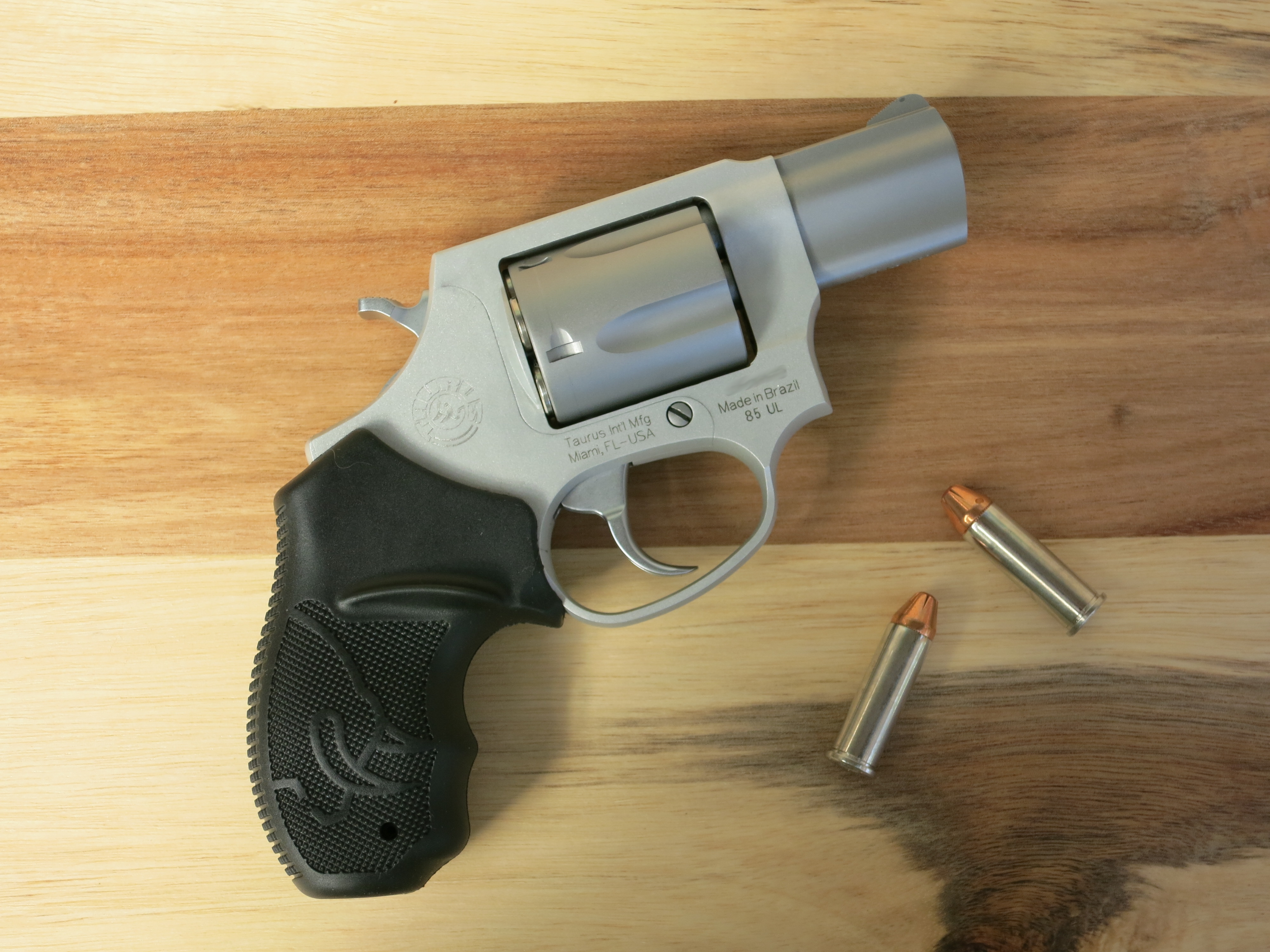 .38 Special Double Action Revolver Made in Brazil